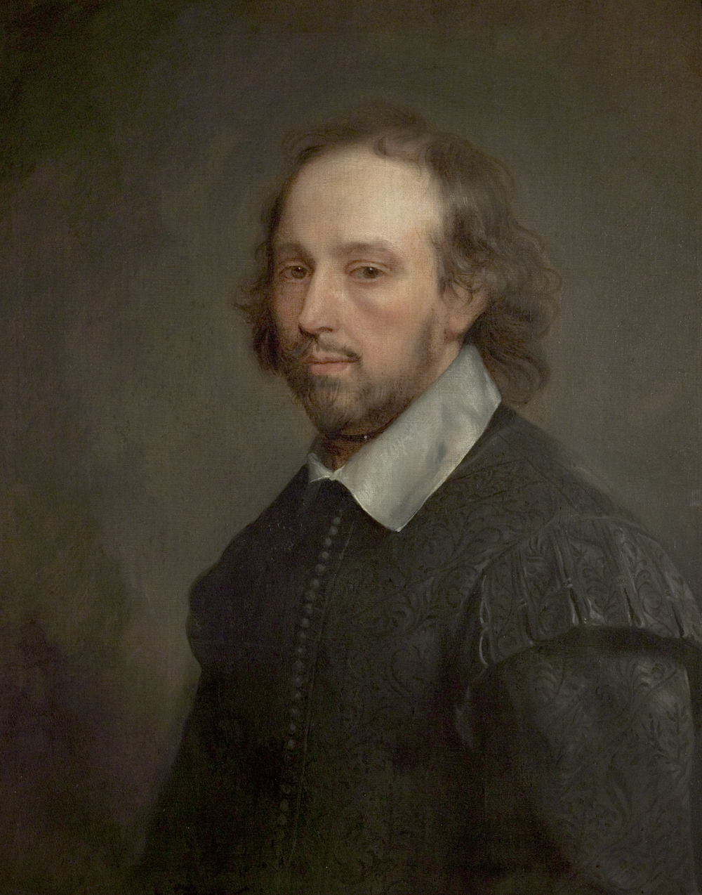 A Restoration period painting of Shakespeare made after the Chandos.